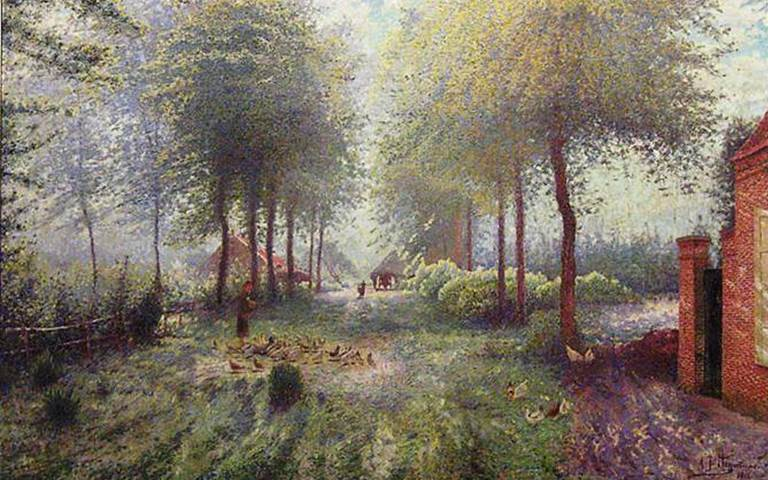 Summer Morning by Heymans